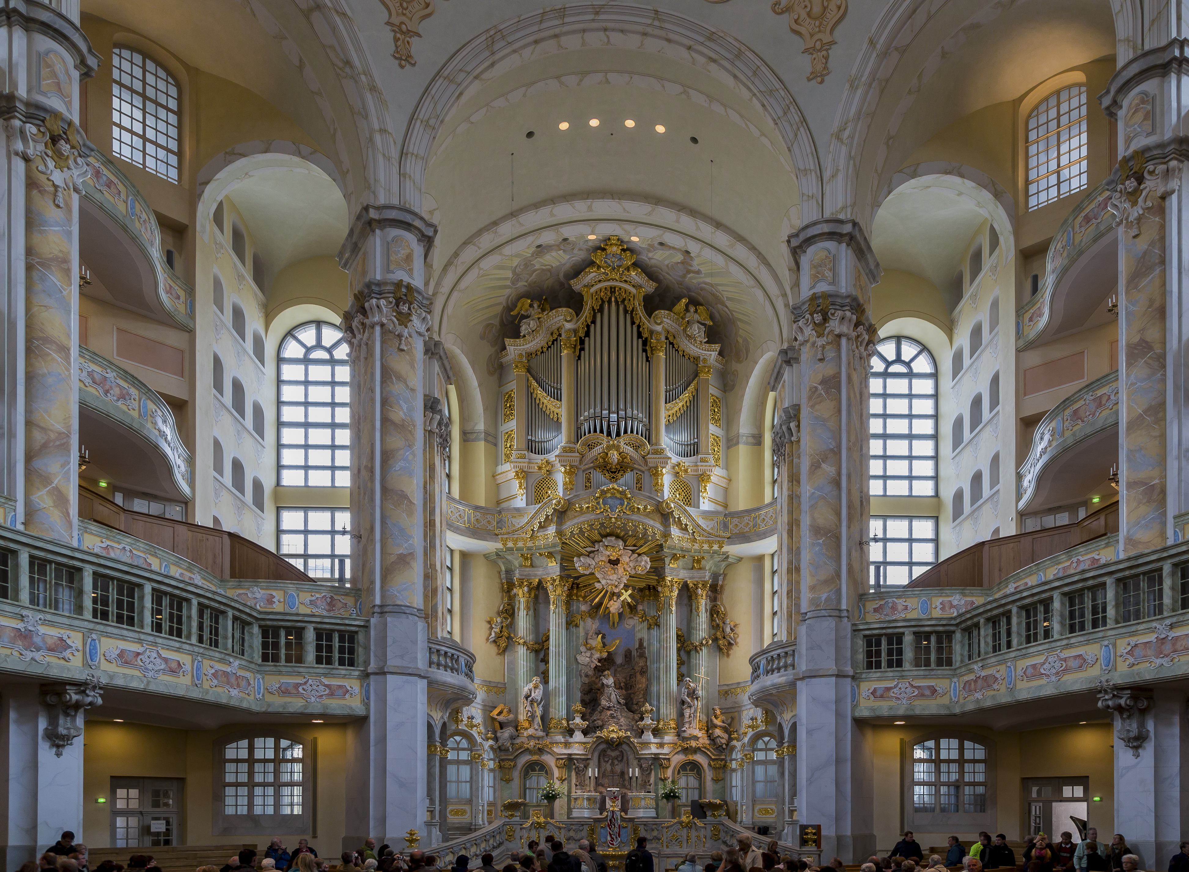 Dresden, Germany: Inside view of Frauenkirche